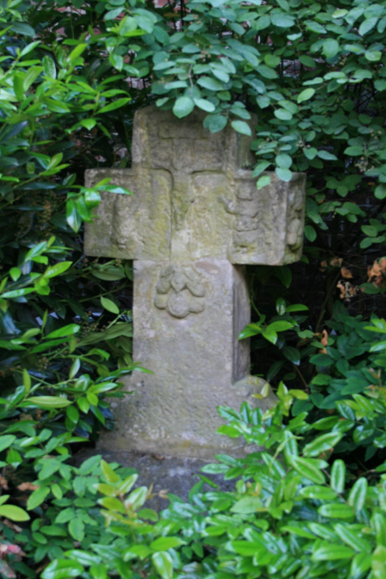 Cultural heritage monument No. B 173 in Mönchengladbach